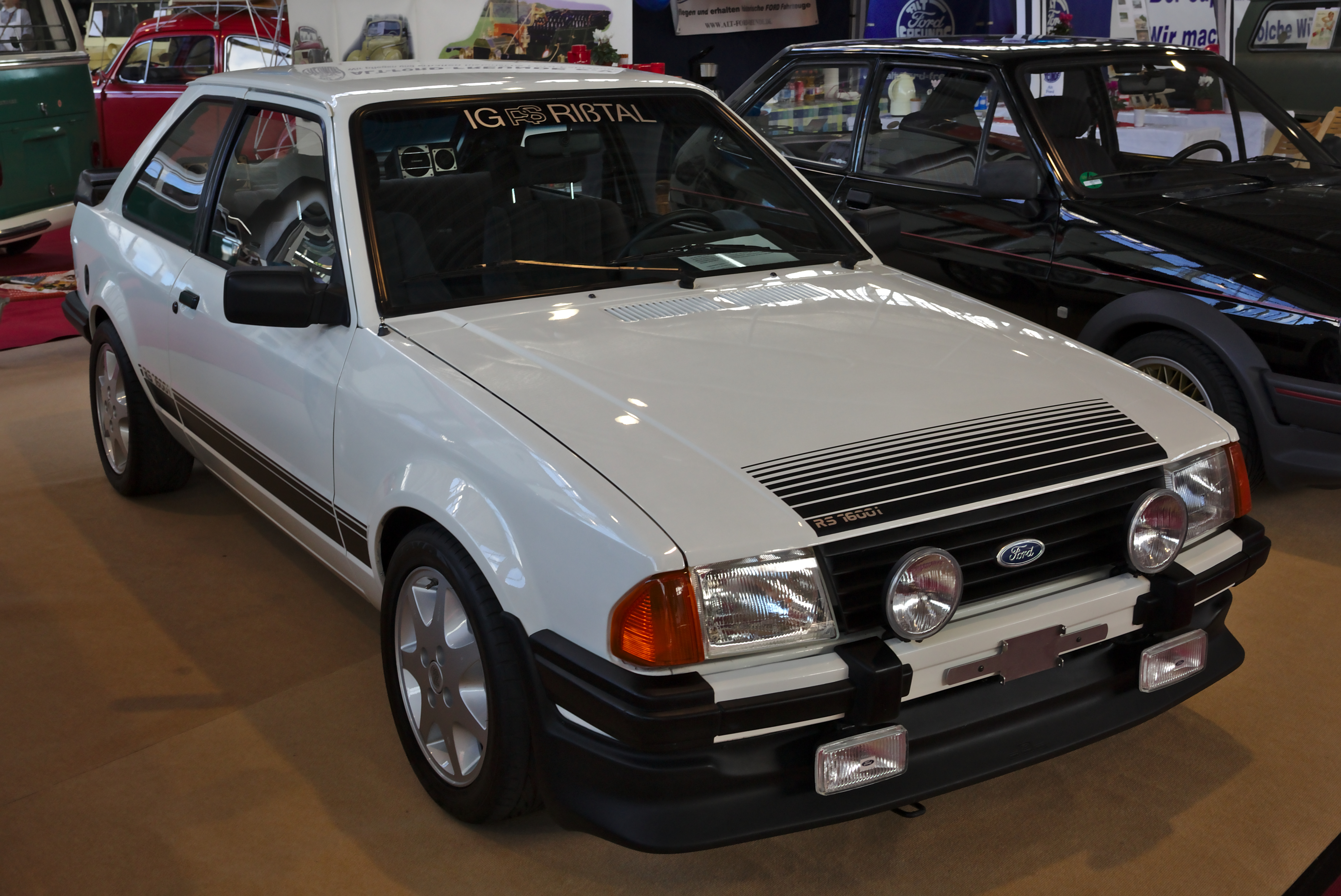 Ford Escort MK3 RS1600i at Retro Classics 2019